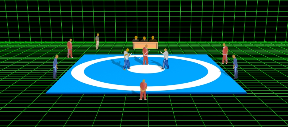 Palestra (fight area) for modern Pankration